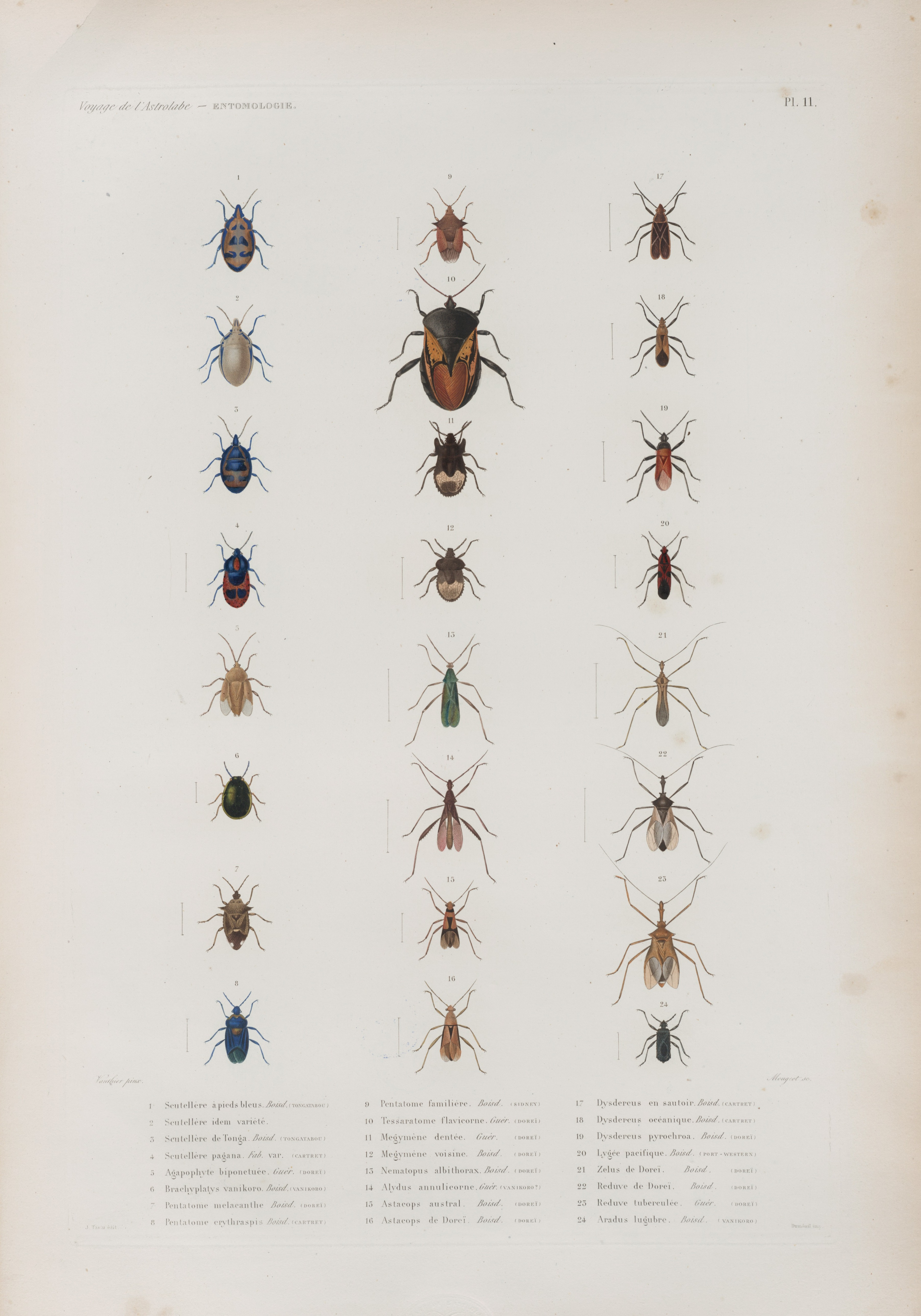 1. Scutellère à pieds bleus. boisd. (Tonga-Tabou.); 2. Scutellère idem variéte; 3. Scutellère de Tonga. Boisd. (Tonga-Tabou.); 4. Scutellère pagana. Fab. var. (Cartret.); 5. Agapophyte biponetuée. Guer. (Doreï.); 6. Brachyplatys vanikoro. Baisd. (Vanikoro.); 7. Pentatome melacanthe. Boisd. (Doreï.); 8. Pentatome erythraspis. Baisd. (Cartret.); 9. Pentatome familiére. Boisd. (Sydney.); 10. Tessaratome flavicorne. Guér. (Doreï.); 11. Megymène dentée, Guér. (Doreï.); 12. Megymène voisine. Boisd. (Doreï.); 13. Nematopus albithorax. Boisd. (Doreï.); 14. Alydus annulicorne. Guér. (Vanikoro.); 15. Astacops austral. Boisd. (Doreï.); 16. Astacops de Doreï. Boisd. (Doreï.); 17. Dysdercus en sautoir. Boisd. (Cartret.); 18. Dysdercus océanique. Boisd. (Cartret.); 19. Dysdercus pyrochroa. Boisd. (Doreï.); 20. Lygée pacifique. Boisd. (Port-Western.); 21. Zelus de Doreï. Boisd. (Doreï.); 22. Reduve de Doreï. Boisd. (Doreï.); 23. Reduve tuberculée. Guér. (Doreï.); 24. Aradus lugubre. Boisd. (Vanikoro.)